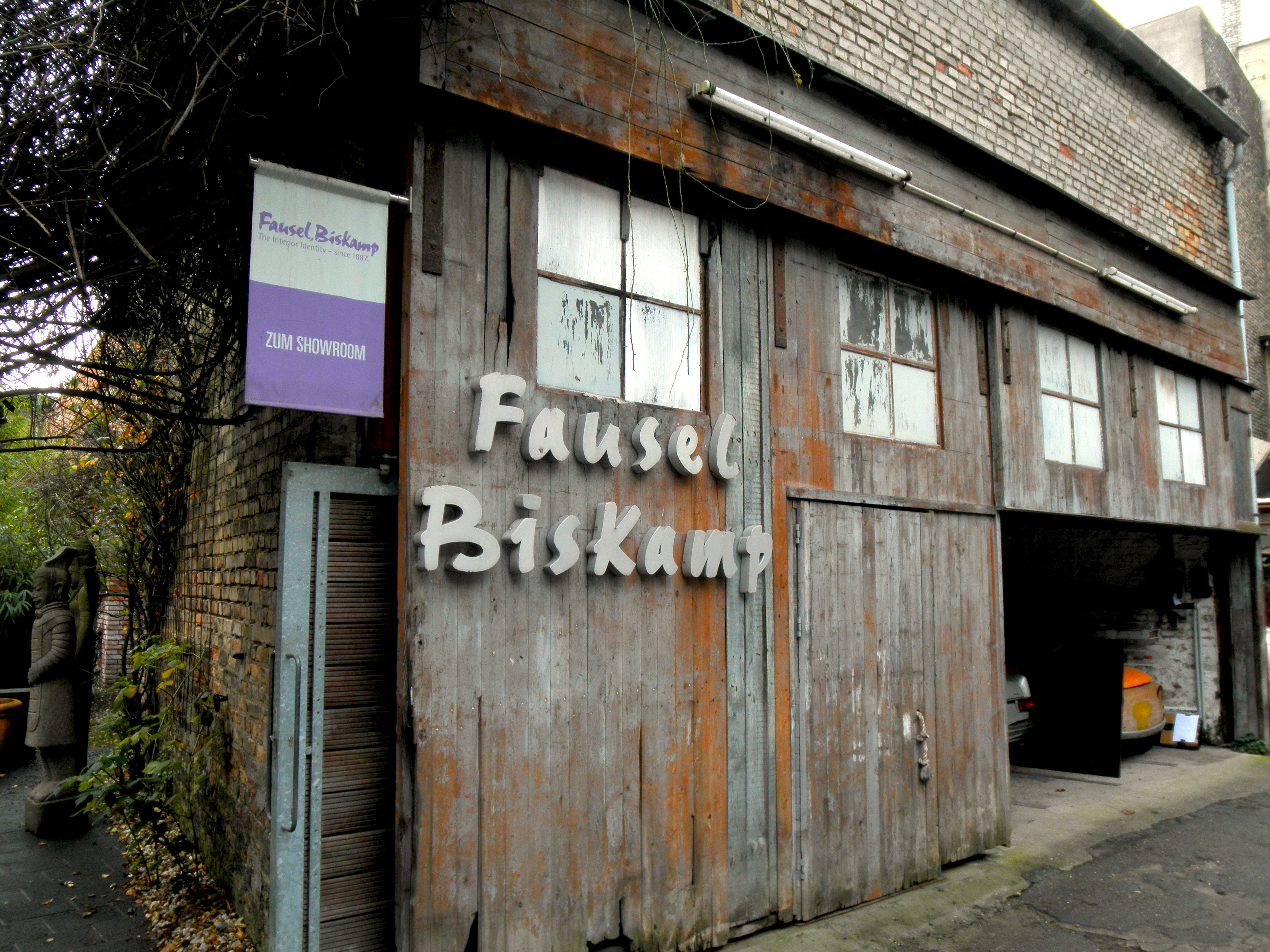 House number 11 on the street Ludenberger Strasse in Dusseldorf.